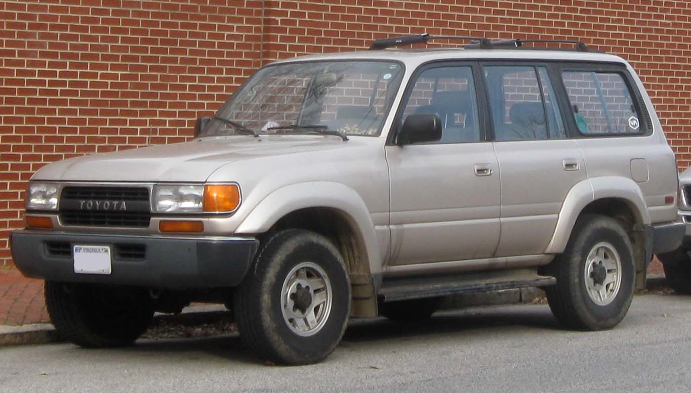 Toyota Land Cruiser photographed in College Park, Maryland, USA.